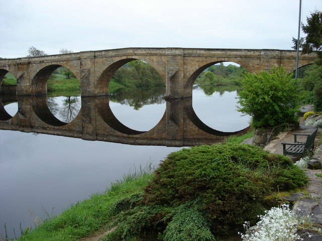 Flat Calm at Chollerford Bridge Taken at 09:30 on Thursday 17th May 2007. We were staying at the adjacent George hotel and took this picture from the gardens.